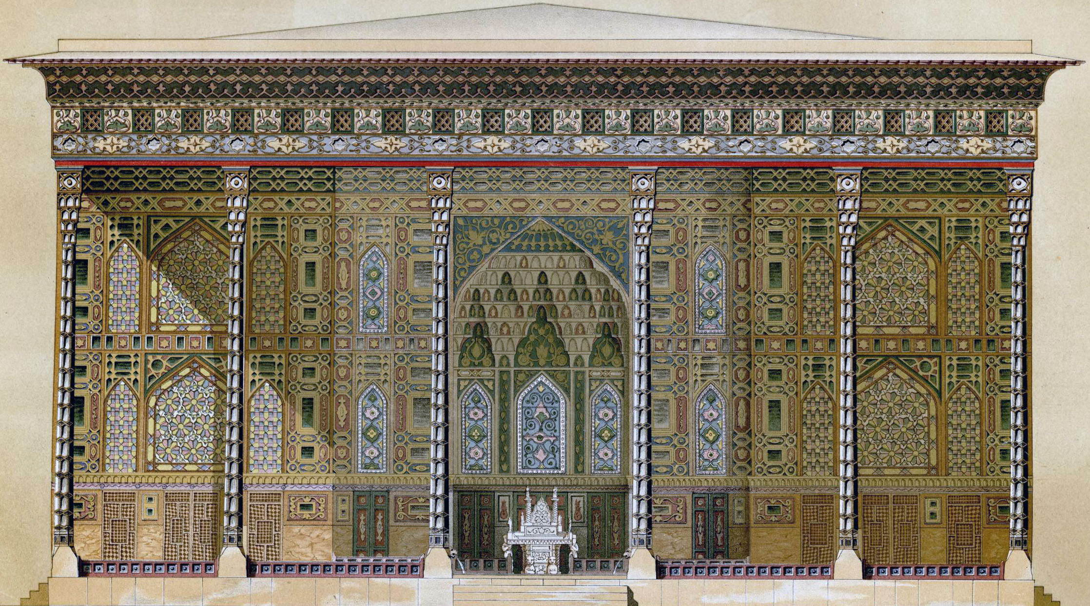 Garden and pavilion Chehel Sotoun (40 columns), Facade